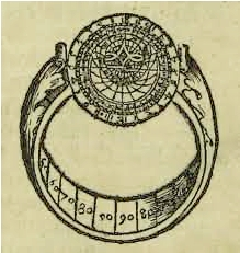 Equinoxial finger ring - Inventor: Bonet de Lattes - 1493